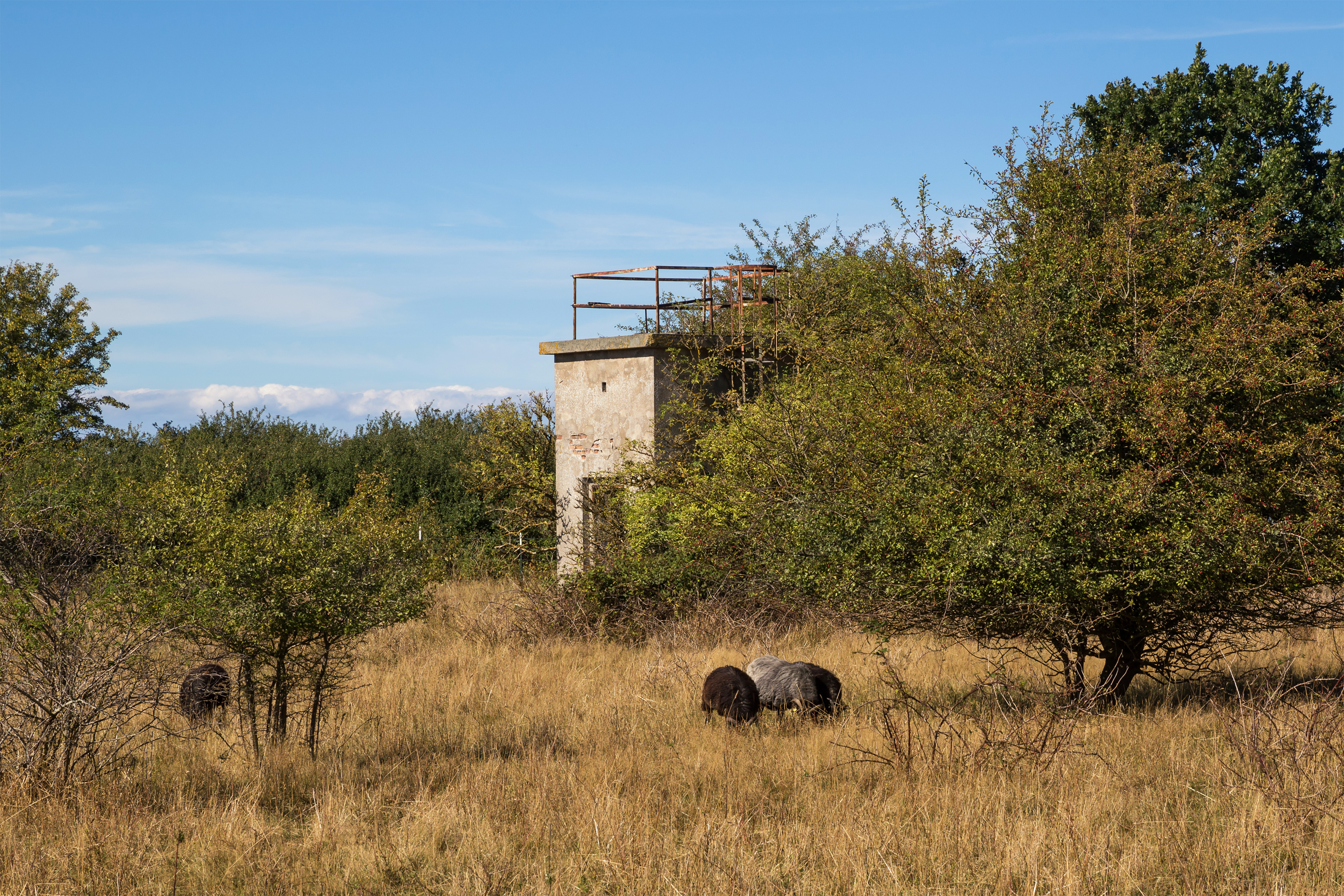 Greifswalder Oie, landscape with sheep